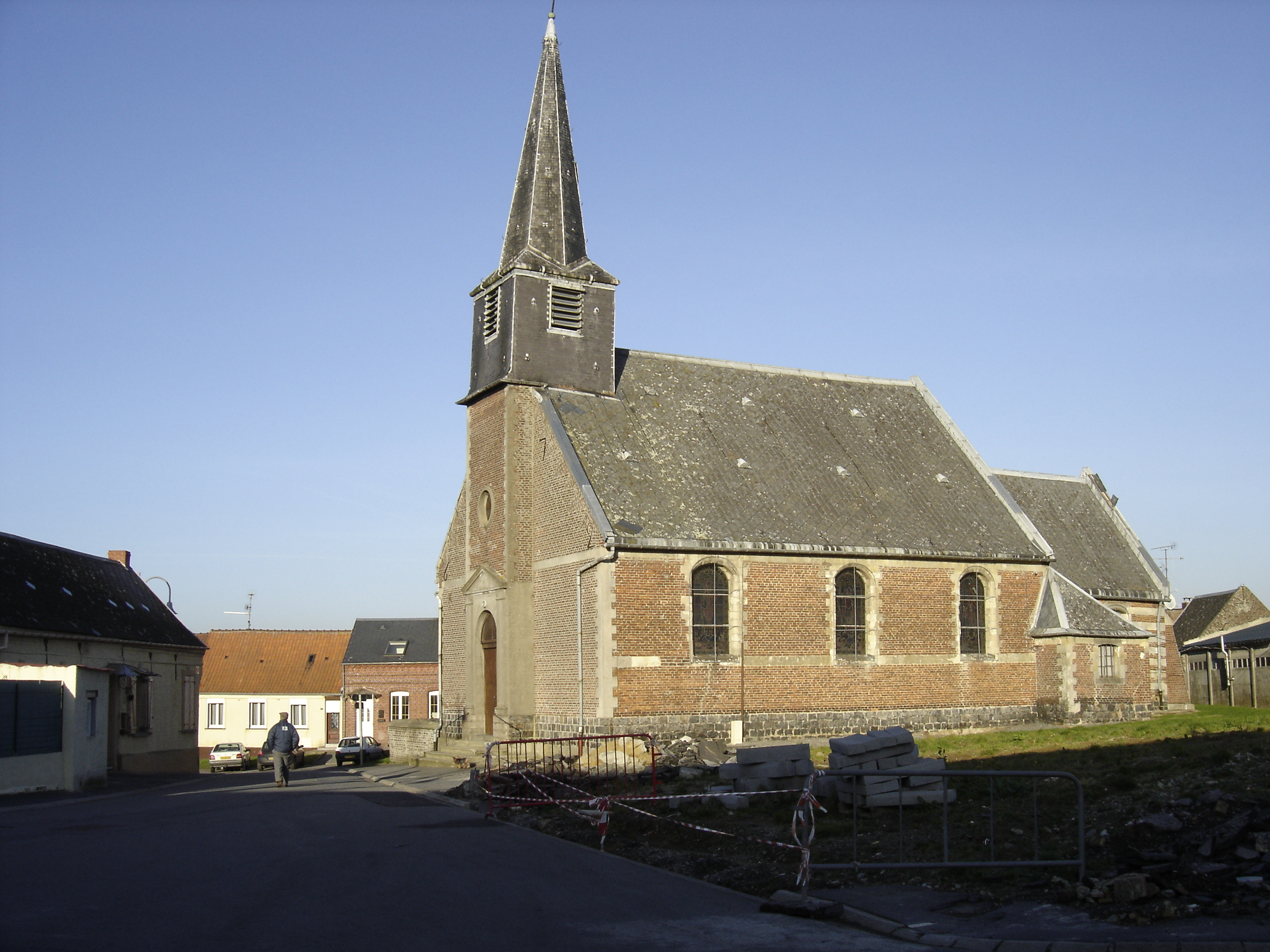 Maurois View of the center village with church